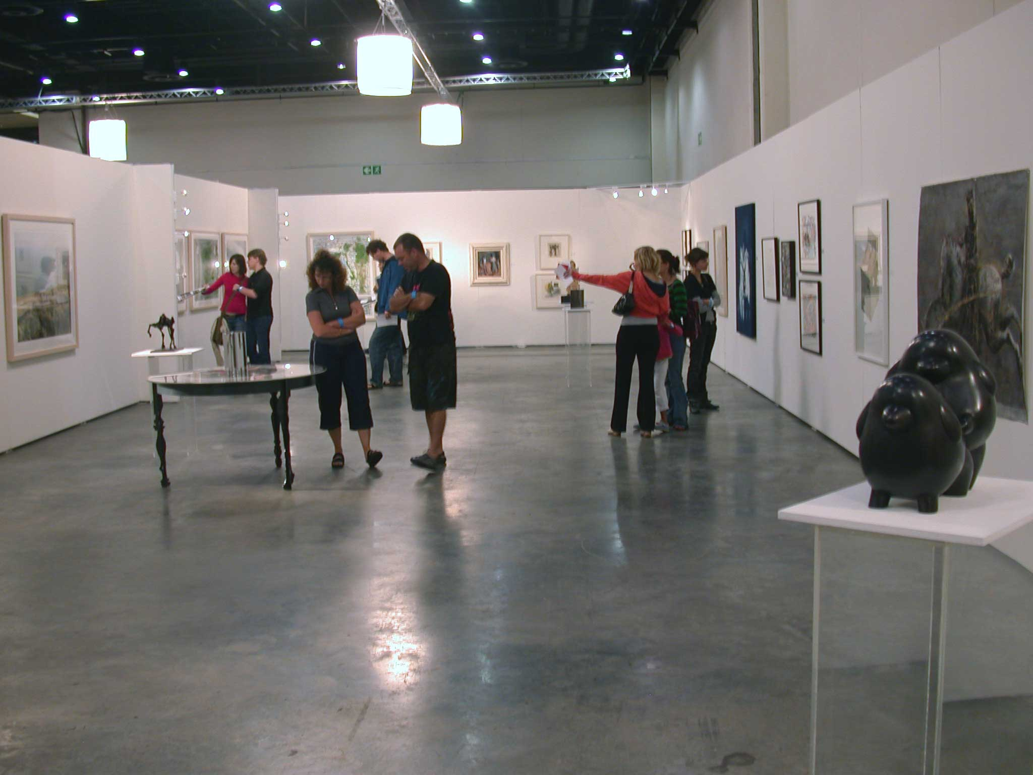 The Goodman Gallery stand at the 2008 Joburg Art Fair at the Sandton Convention Centre in Johannesburg